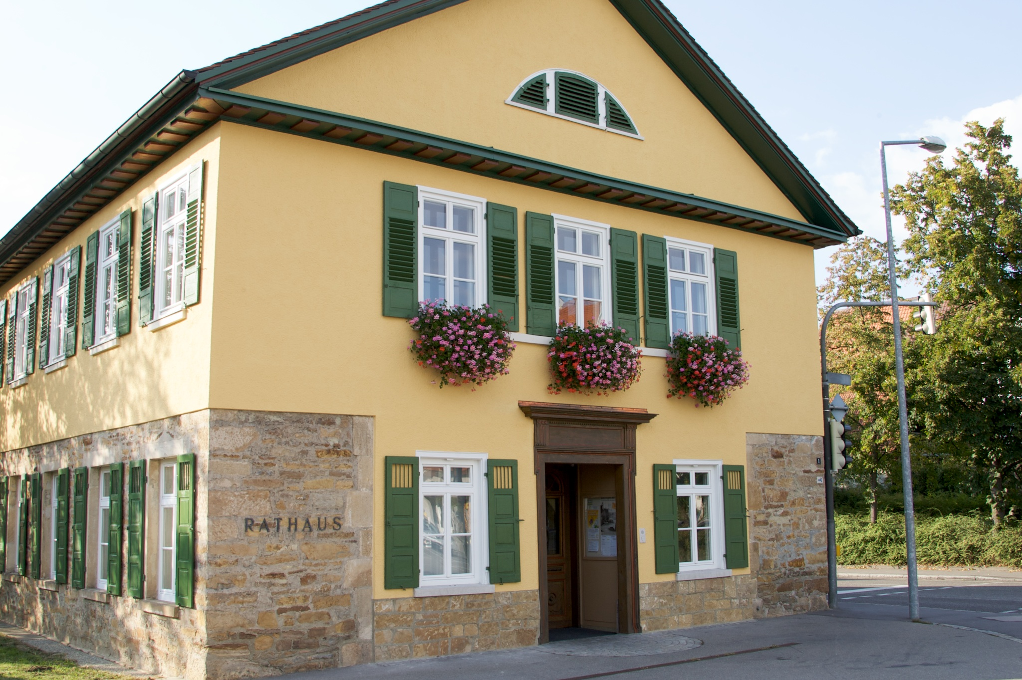 Town hall of Betzingen, Reutlingen.